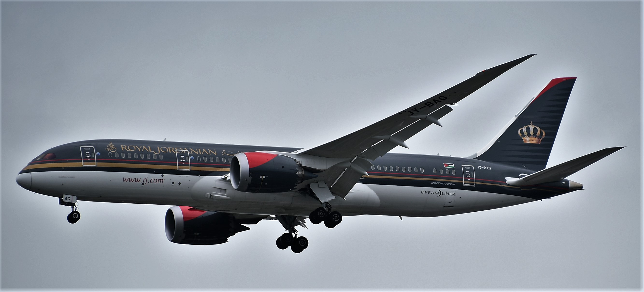 Boeing 787/8 of Royal Jordanian Airlines on final approach to rwy.19R at Bangkok-BKK,Thailand, 17/05/17.